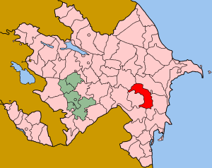 Map of Azerbaijan showing Sabirabad rayon.